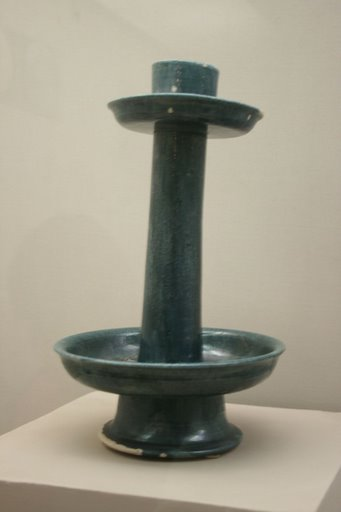 Chinese blue-glaze ceramic candle-holder from the Tang Dynasty (618-907 AD) of medieval China.